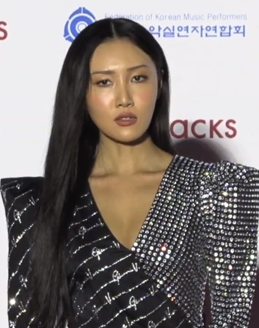 Hwasa at Gaon Music Awards red carpet on January 8, 2020.